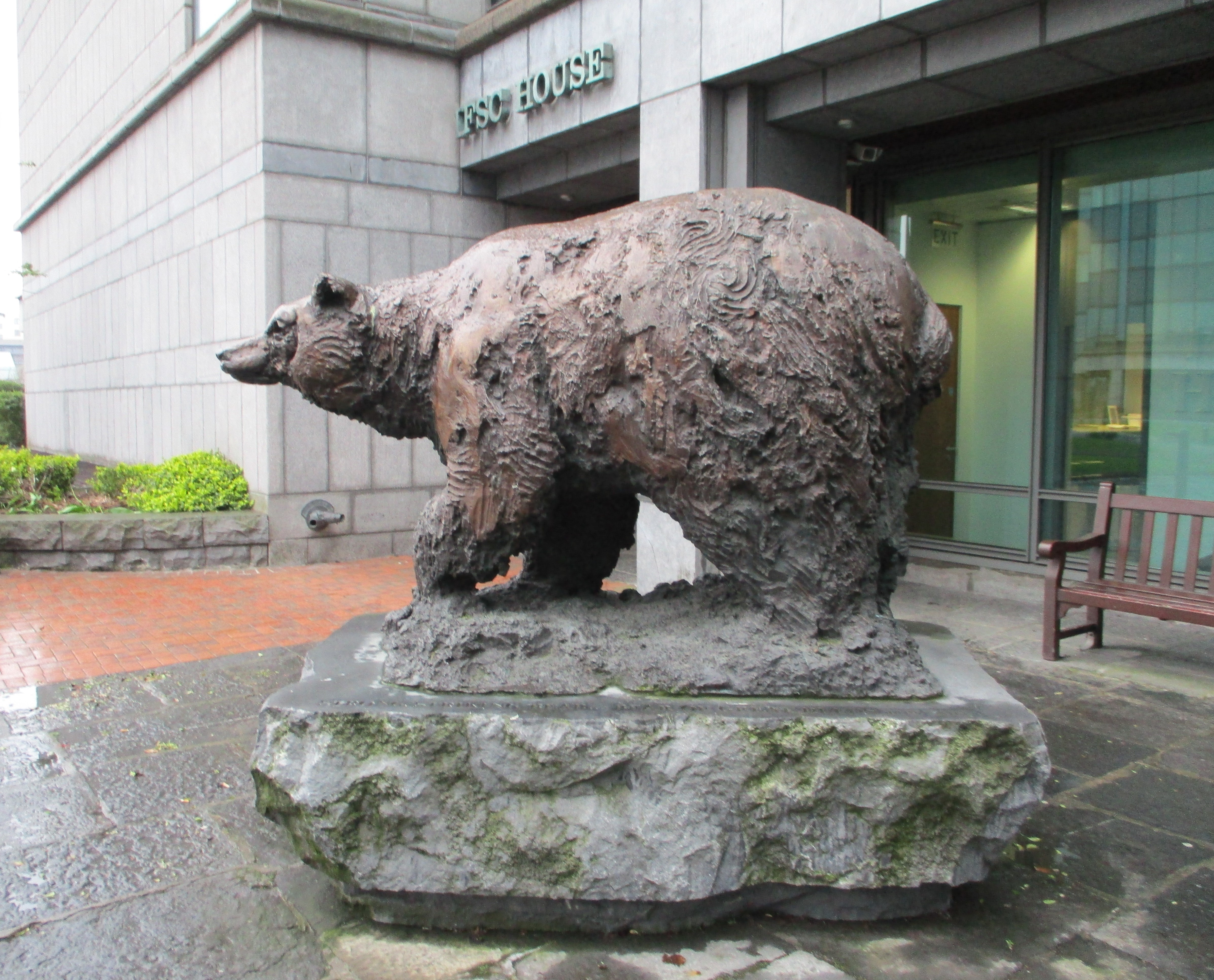 One of a pair 'Bear and Bull'. Bull is in lobby on other side of the building. Don Cronin 1999